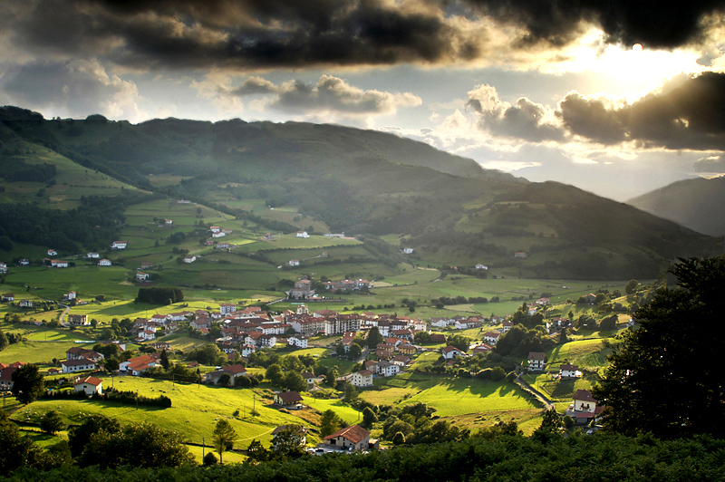 General view of Berastegi, Gipuzkoa, Basque Country